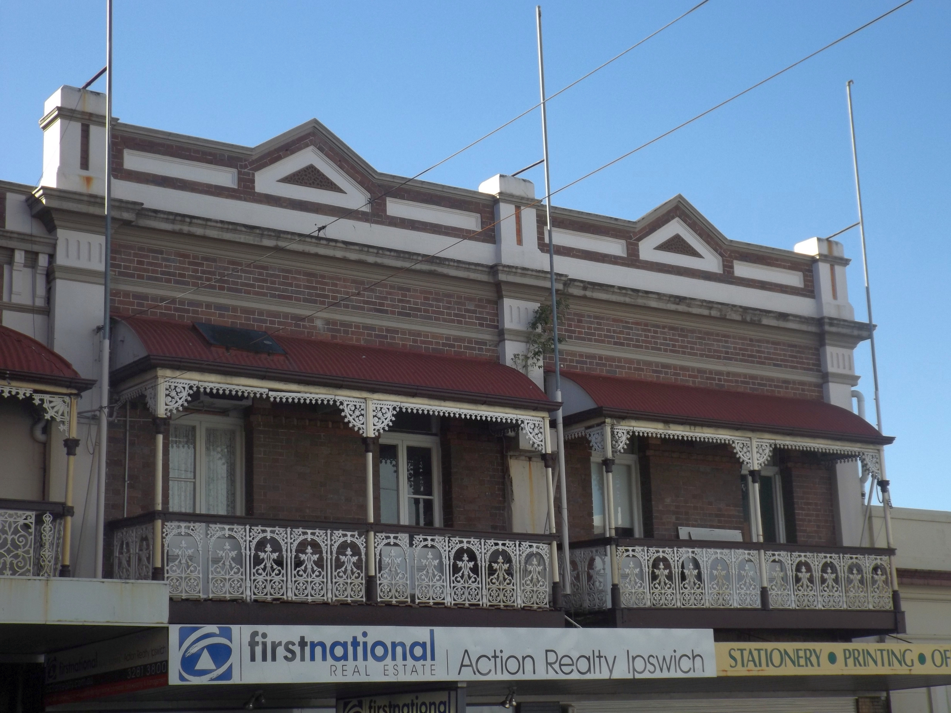 Upper floors William Johnston's Shops at Ipswich, Queensland, Australia.